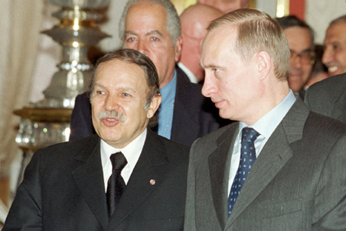 THE GRAND KREMLIN PALACE, MOSCOW. President Putin with Algerian President Abdelaziz Bouteflika before Russian-Algerian talks.